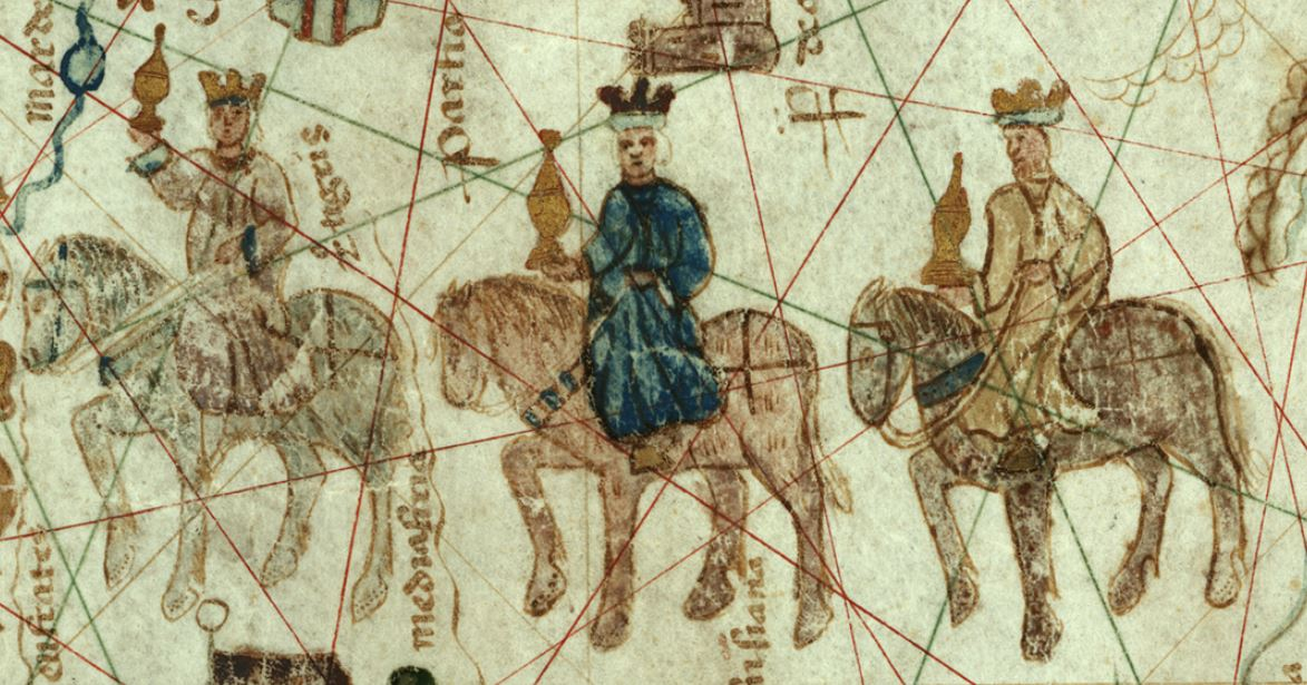 Map of Juan de la Cosa, 1500. Detail: the Biblical Magi or Three Wise Men in Asia.